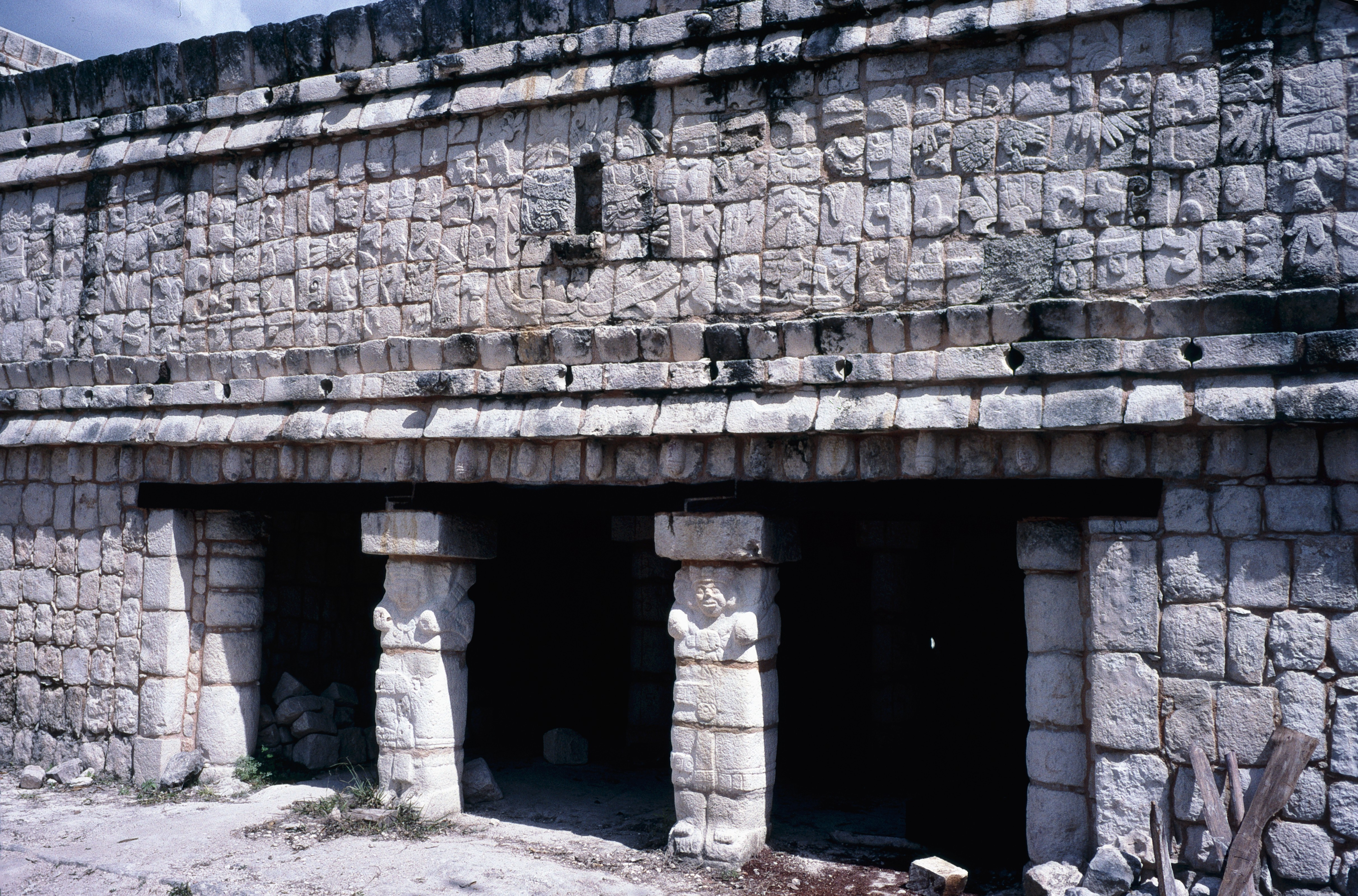 Chichen Itza, Yucatan, Mexico: Grupo Serie Inicial, Casa de los Caracoles